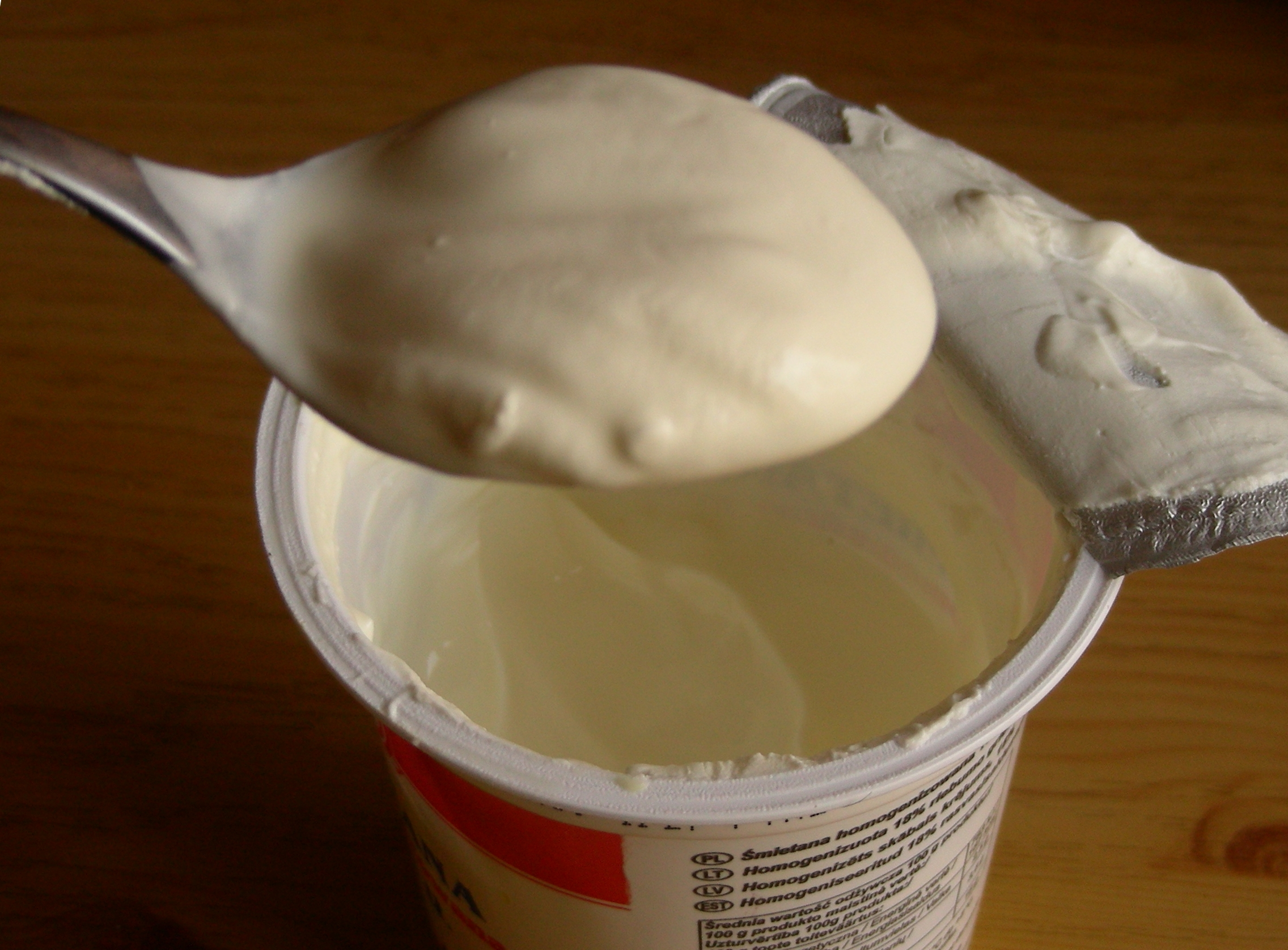 Cream (18%)